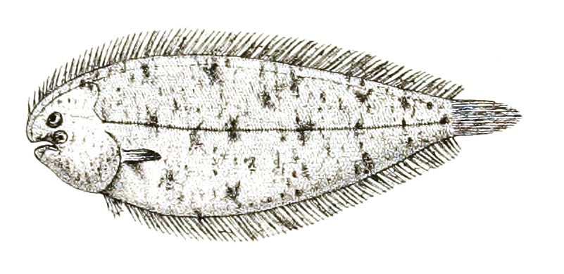 Solea elongata. The original plates showed the fishes facing right and have been flipped here. Solea elongata